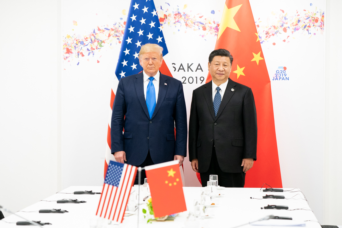 President Donald J. Trump joins Xi Jinping, President of the People’s Republic of China, at the start of their bilateral meeting Saturday, June 29, 2019, at the G20 Japan Summit in Osaka, Japan. ( Official White House Photo by Shealah Craighead)